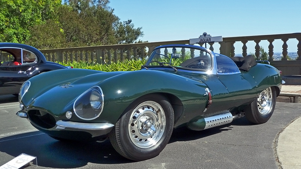 Formerly owned by Steve McQueen. 2011 Greystone Mansion Concours d'Elegance, May 1, Beverly Hills CA